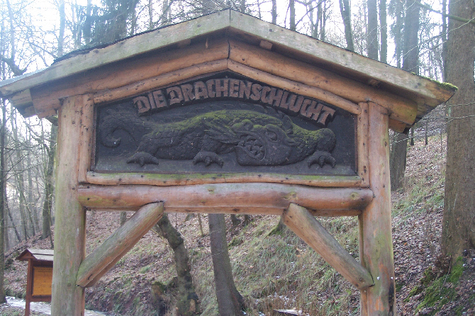 The gate of the famous Drachenschlucht (dracon dell).